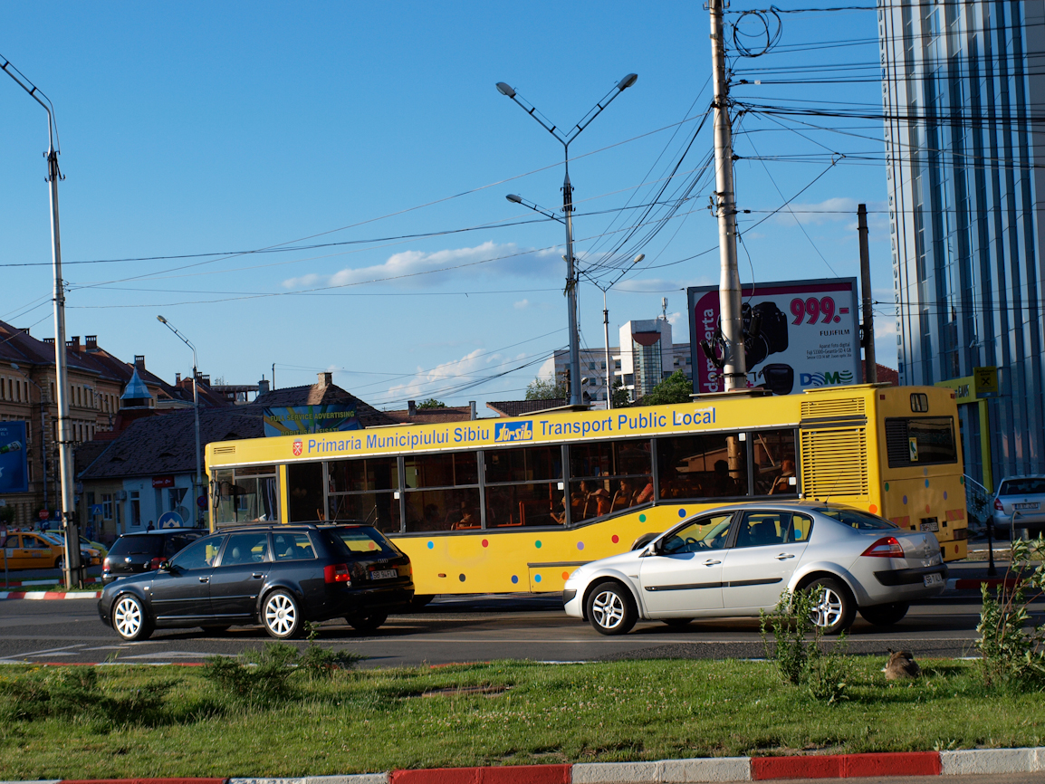 Bus transportation in Sibiu